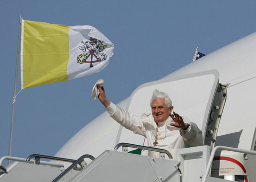 Pope Benedict XVI waves to cheering crowd on his arrival to Andrews Air Force Base, Maryland, where he was greeted by President George W. Bush, Laura Bush and their daughter, Jenna.